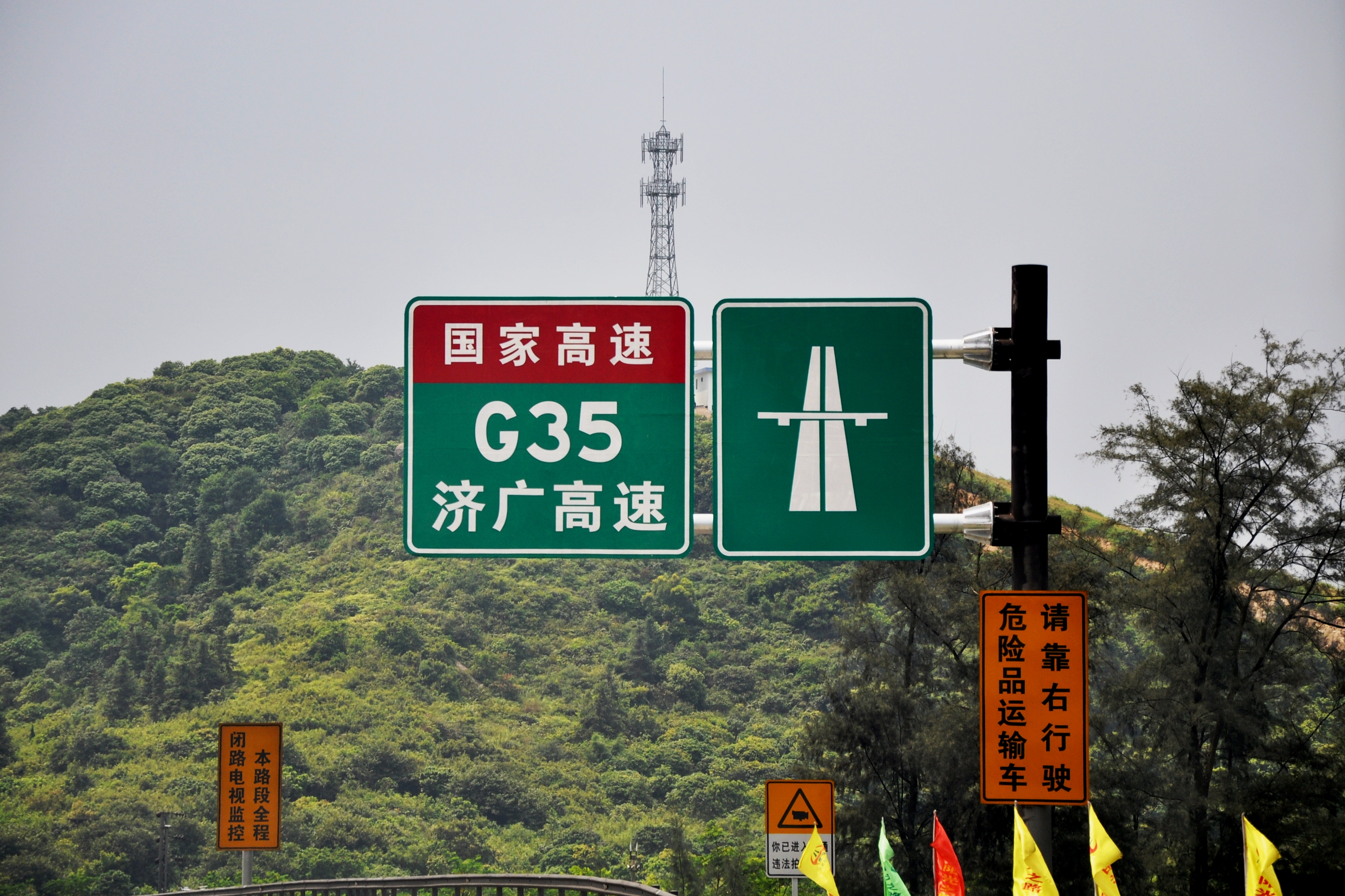 The China Expwy G35 Sign With Name In Luogang Tollgate.